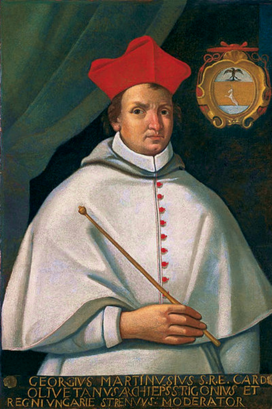 Cardinal George Martinuzzi (György Fráter) (1482–1551), Archbishop of Esztergom, Chancellor of Transylvania